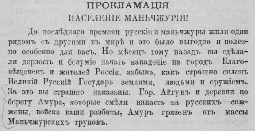 The introduction to a proclamation by General-Lieutenant Gribskiy describing that the Chinese population of Blagoveshchensk and the 64 Villages East of the River should be punished for actions by Chinese Boxers during the Boxer Rebellion, which led to the 1900 Amur anti-Chinese programs. The proclamation continues onto the next page of the publication, but this image is specifically of its introduction. The source can be found here: on page 14 (22) and was published in 1900.